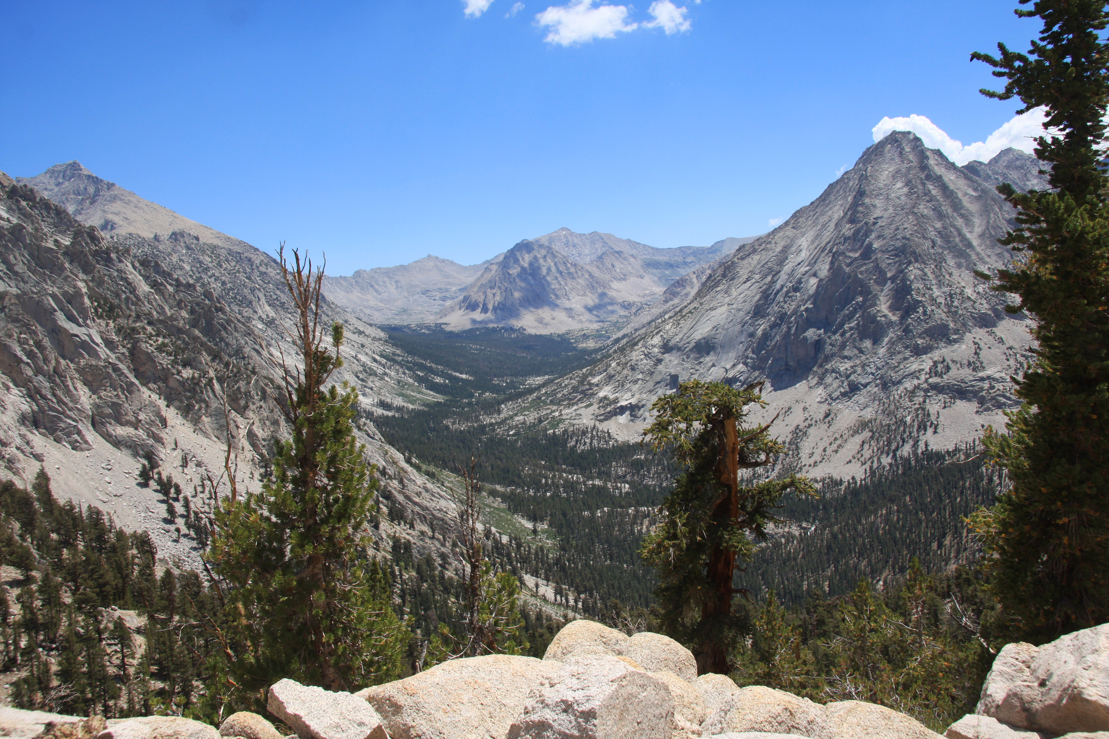 View from campsite on high ridge above the Bullfrog-Pacific Crest trails junction, looking East up the Bubbs Creek valley past Vidette Peak to Center Peak. At 10,770 ft (3,280 m) in Kings Canyon National Park, Sierra Nevada USA.